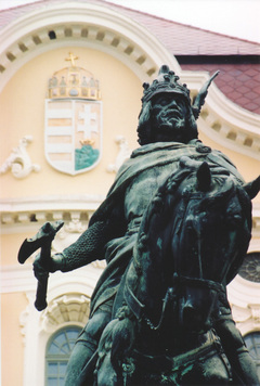 Prince Blessed Coloman of Hungary / Boldog Árpád-házi Kálmán herceg (sculpture in front of the main building of the Szent István university of Gödöllő, Hungary)